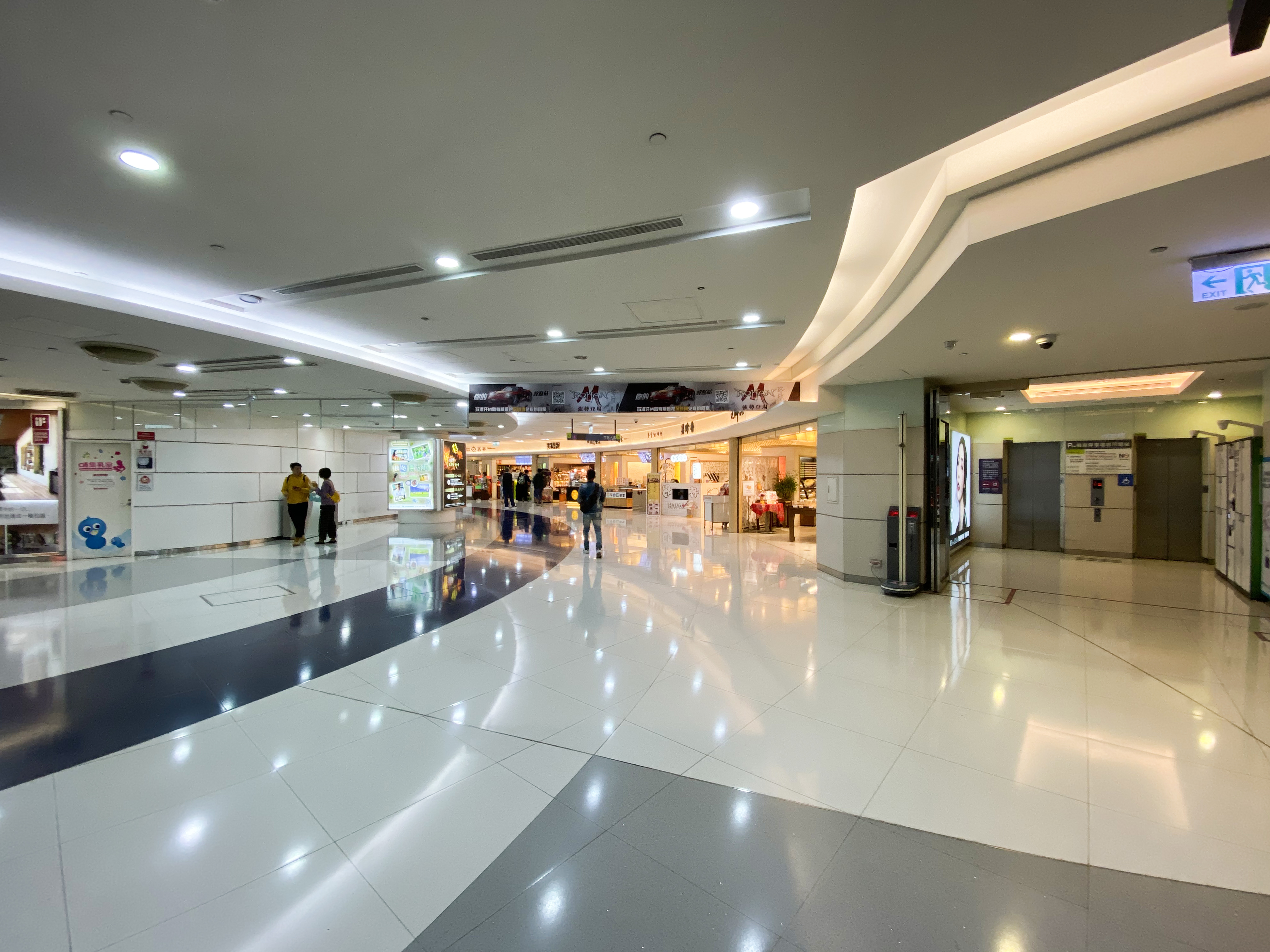 Taipei Bus Station shops